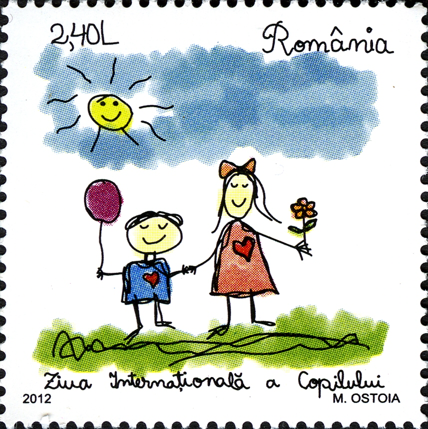 Stamps of Romania, 2012